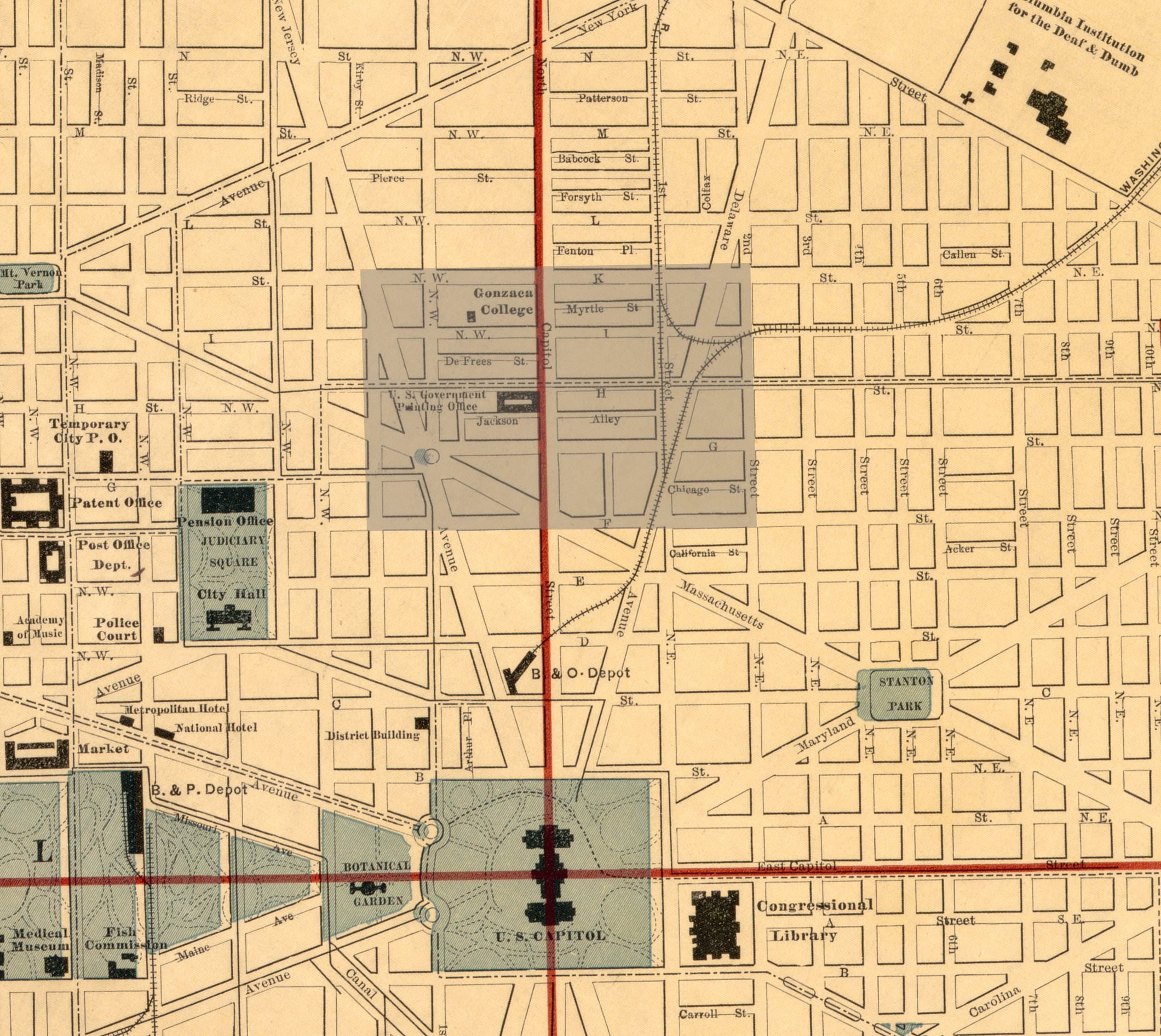 Overlay of the area of Swampoodle on a Rand, McNally & Co. Map of 1893 digitalized by the Library of Congress (